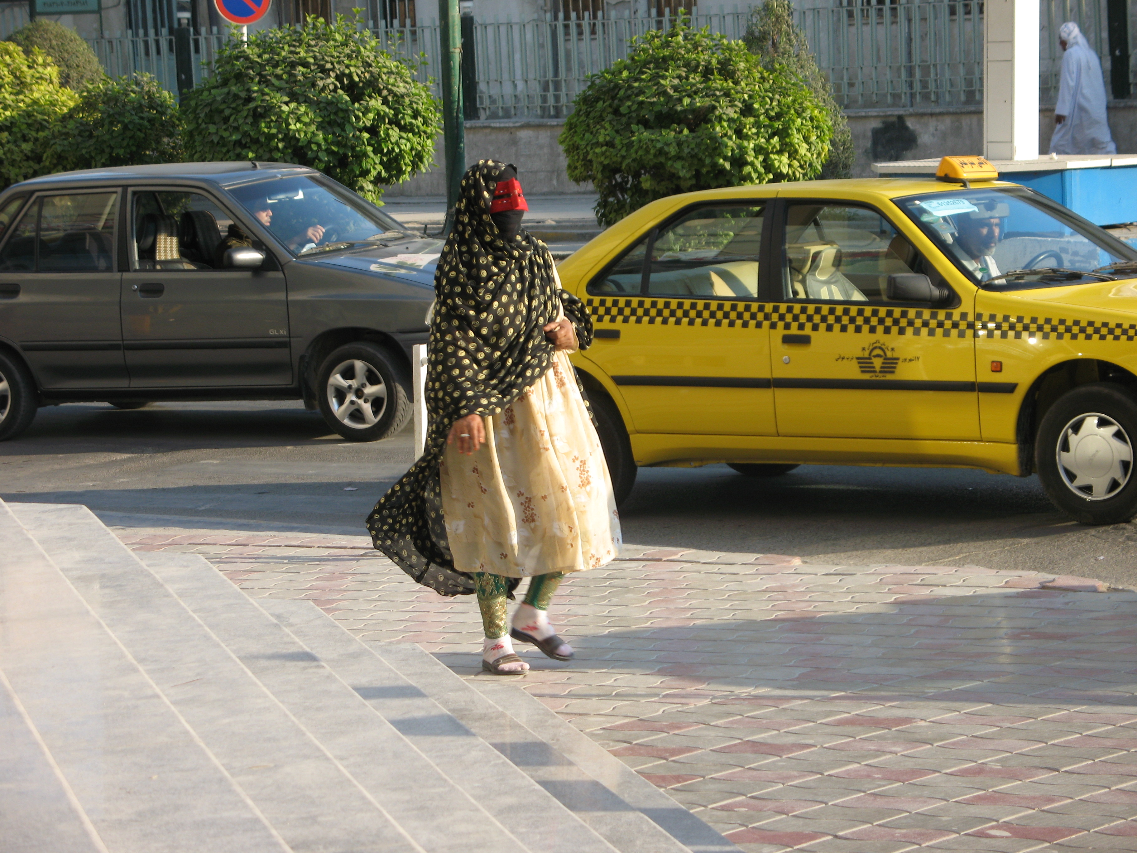 Woman wearing a traditional battula in southern Iran